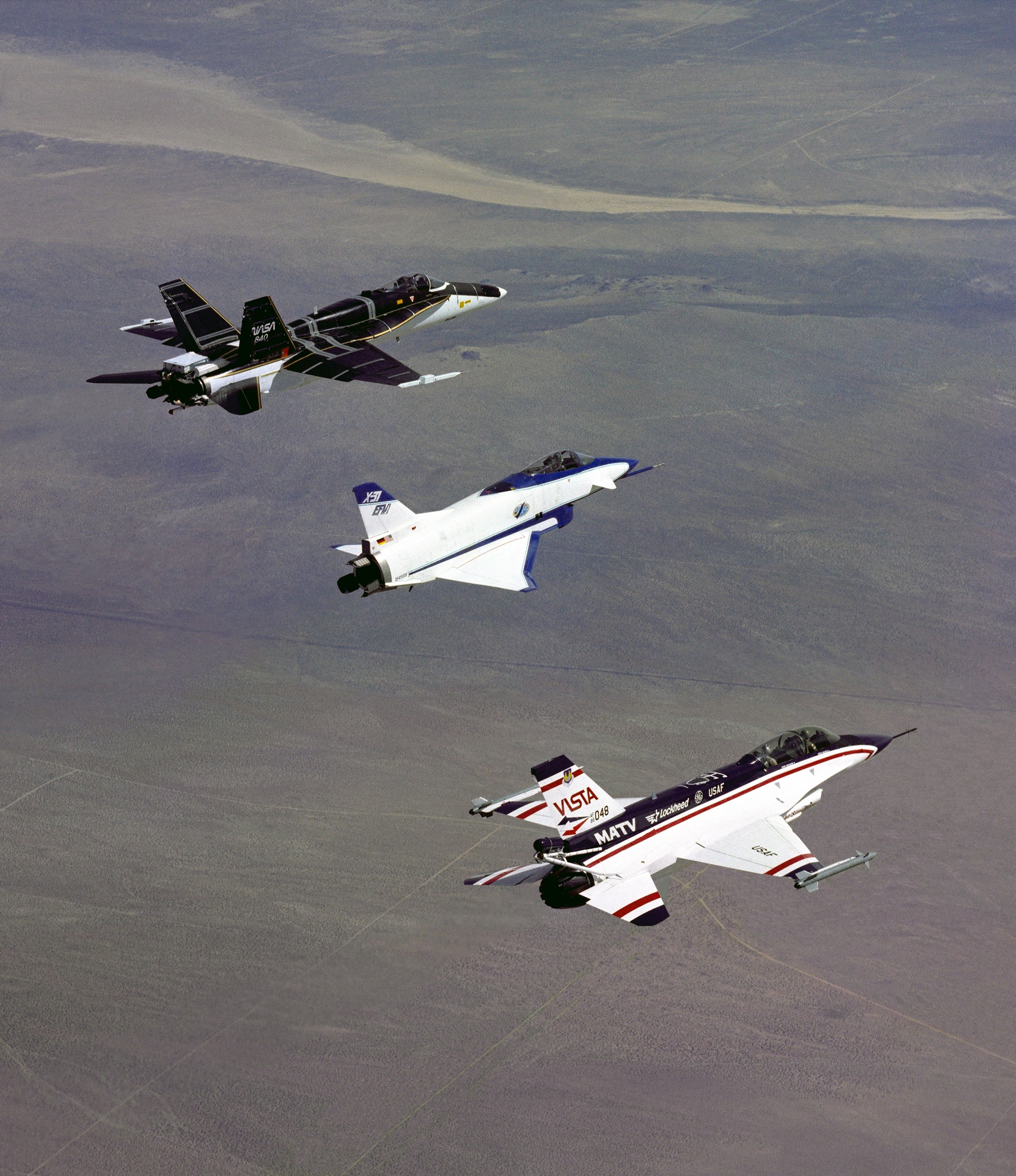 The three thrust-vectoring aircraft at Edwards, California, each capable of flying at extreme angles of attack, cruise over the California desert in formation during flight in March 1994. They are, from left, NASA's F-18 High Alpha Research Vehicle (HARV), flown by the NASA Dryden Flight Research Center; the X-31, flown by the X-31 International Test Organization (ITO) at Dryden; and the Air Force F-16 Multi-Axis Thrust Vectoring (MATV) aircraft.